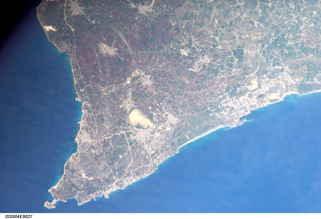 Image Science and Analysis Laboratory, NASA-Johnson Space Center. 2 Nov. 2004. "Astronaut Photography of Earth - Quick View." (28 Aug. 2005). Send questions or comments to the NASA Responsible Official at Curator: Earth Sciences Web Team